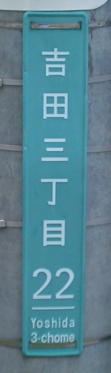 A town block indicator plate (Yoshida 3-chome, Nagano, Nagano, Japan)